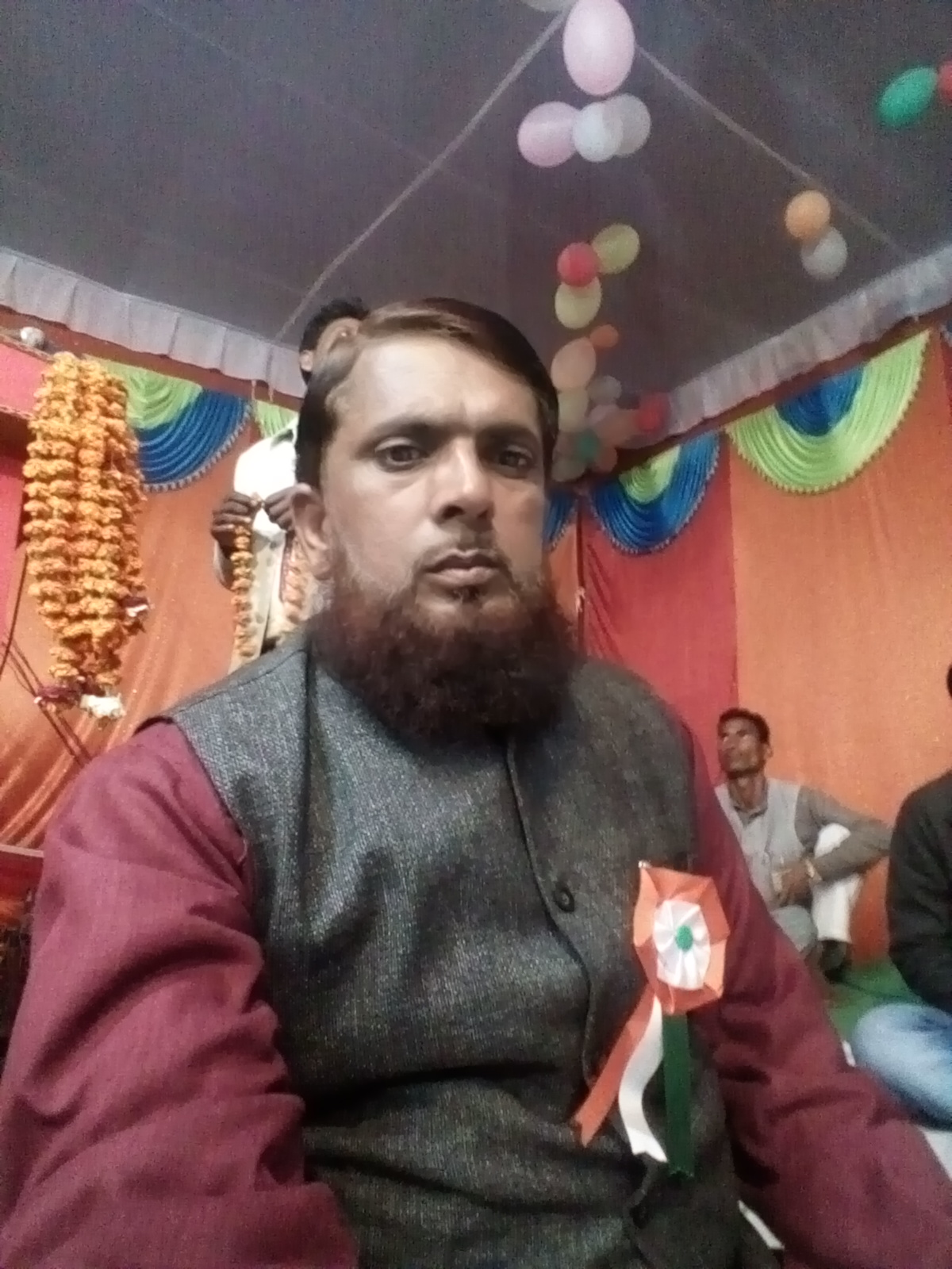 Rais Siddique of Bahraich is well know Urdu Poet and Nazim Mushairah of Bahraich